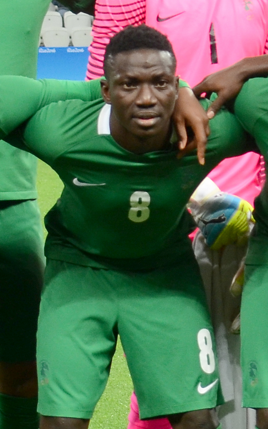 São Paulo - Colômbia vence a Nigéria por 2x0 na Arena Corinthians (Rovena Rosa/Agência Brasil)